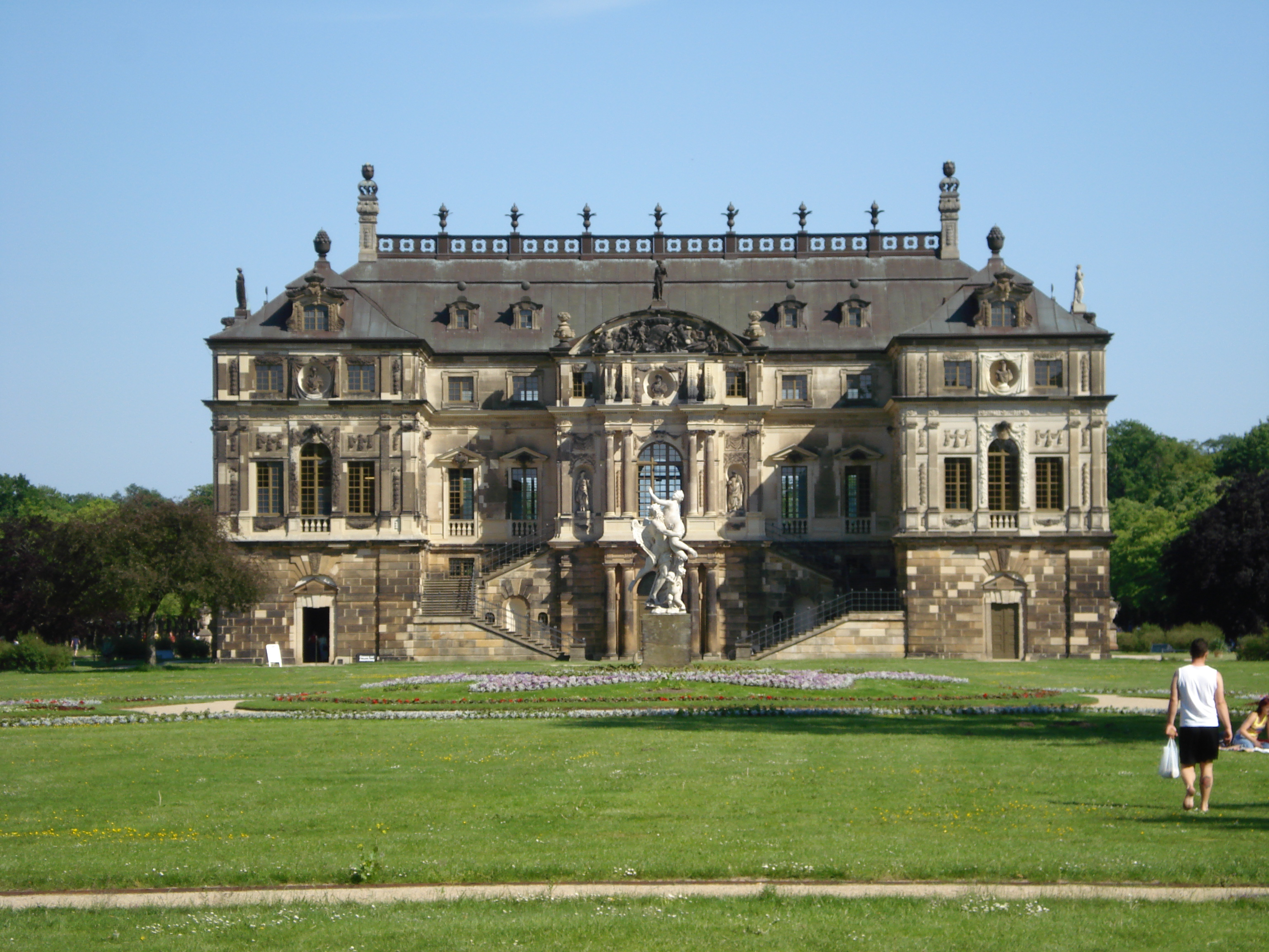 Palace in the City Park of Dresden (Großer Garten)